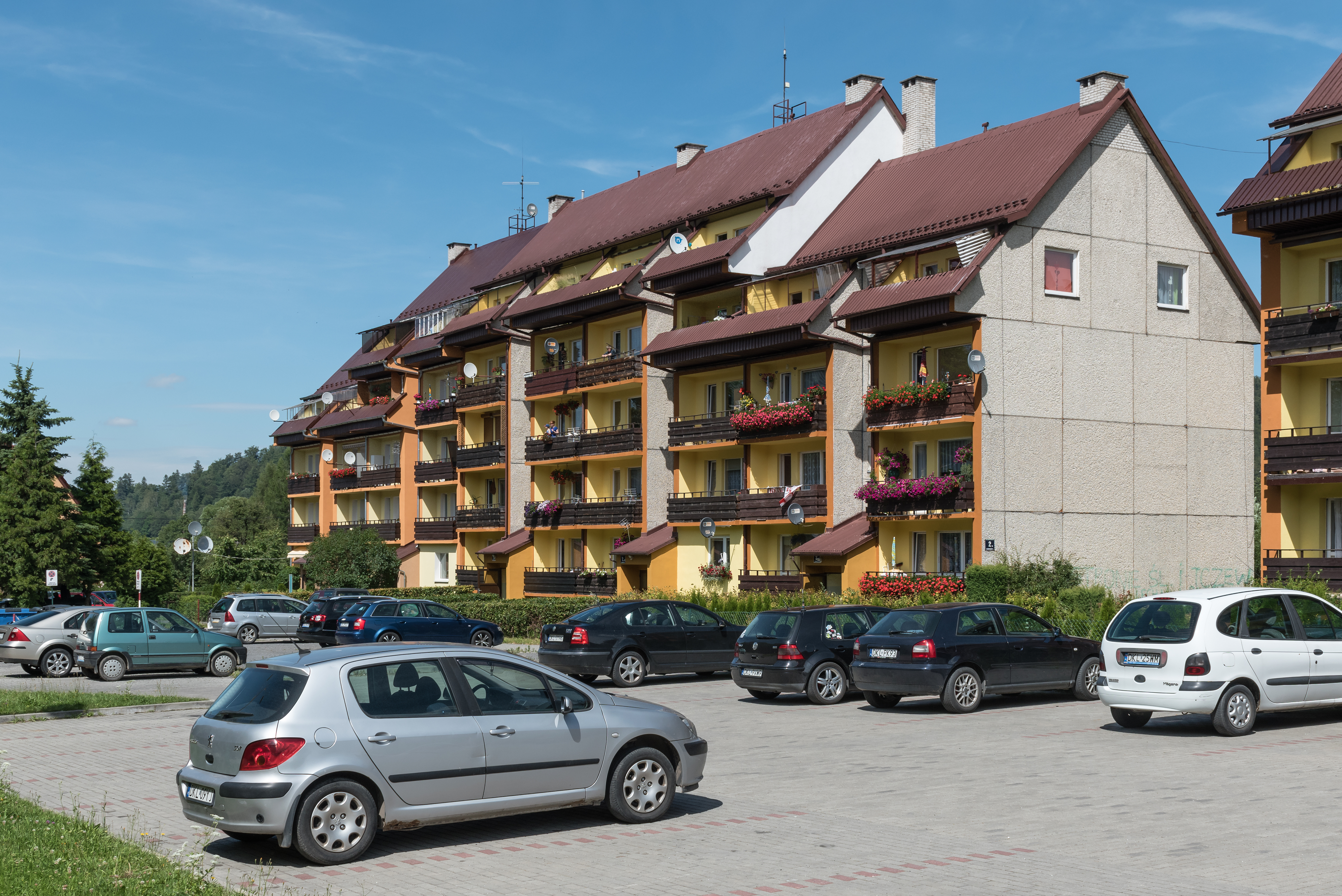 Nadrzeczna Street in Stronie Śląskie